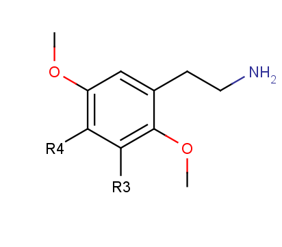 General phenethylamines